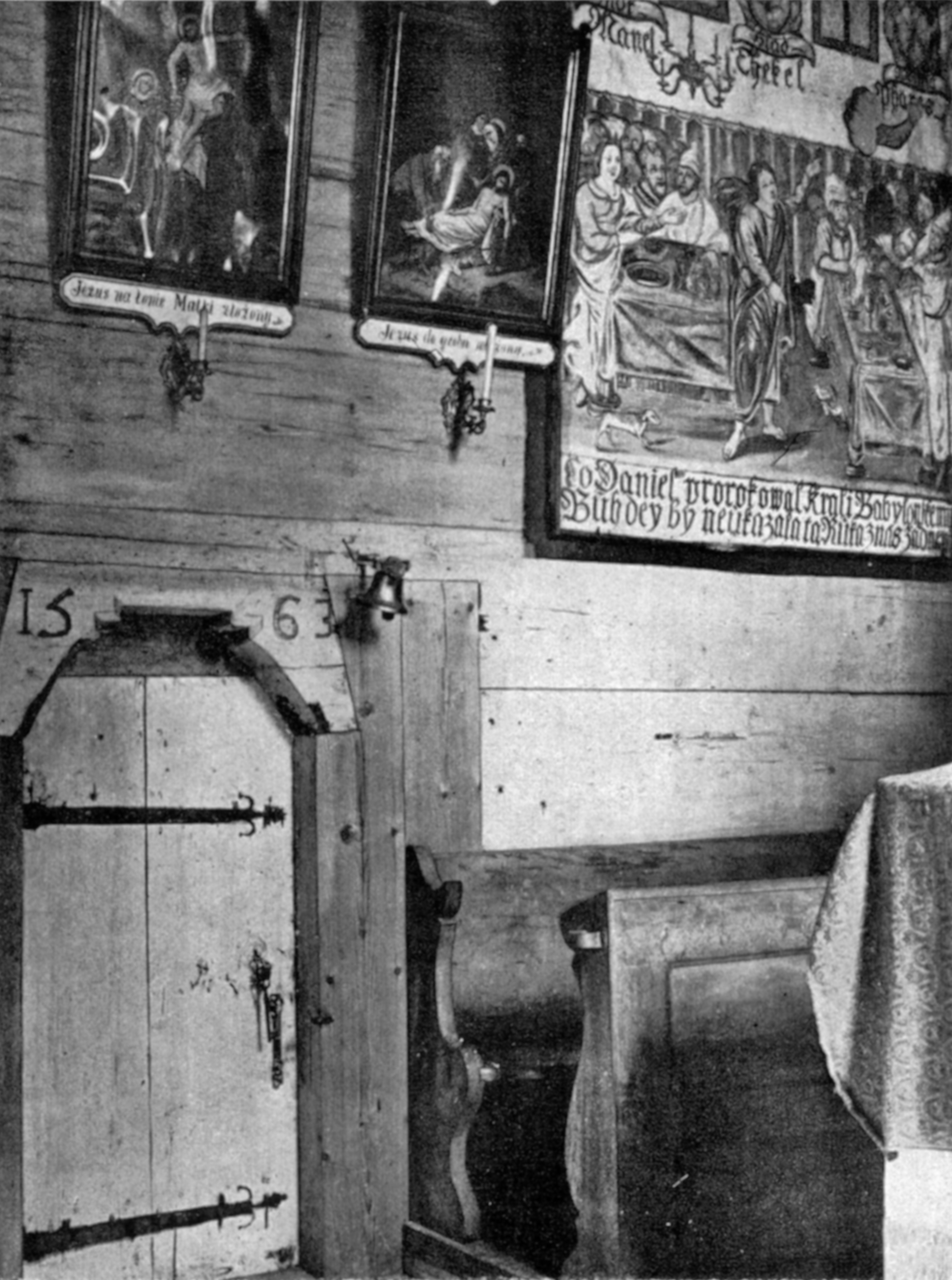 Gůty (Těšín), The Corpus Christi Church, The Small Entrance to the Sacristy.